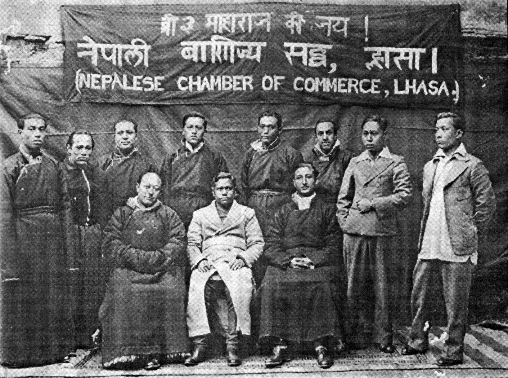 Group photo of members of the Nepalese Chamber of Commerce, Lhasa, Tibet in 1947.